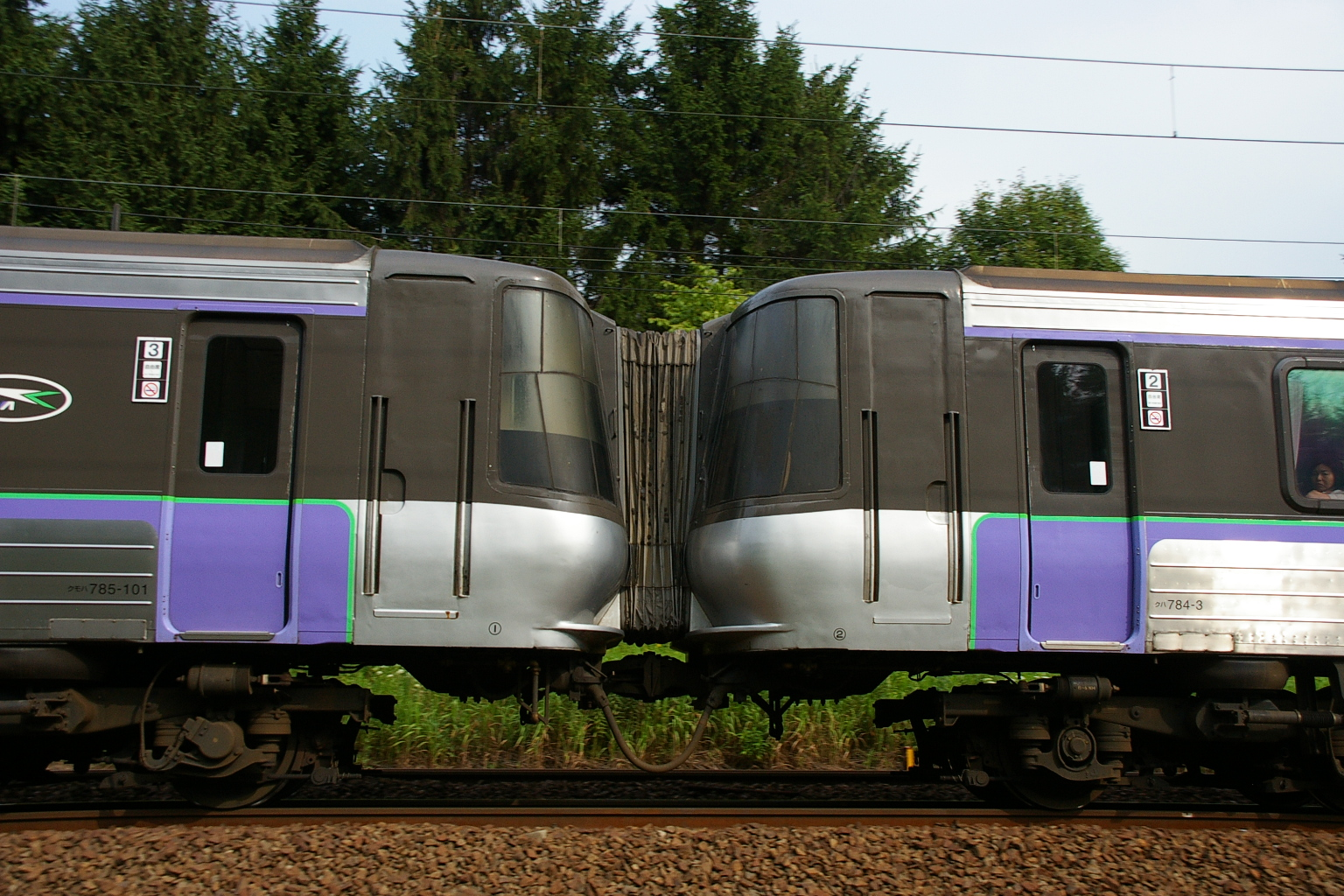 JR Hokkaido 785 series EMU cars KuMoHa 785 101 & KuHa 784 3, showing the blanked off former driver's cab doors